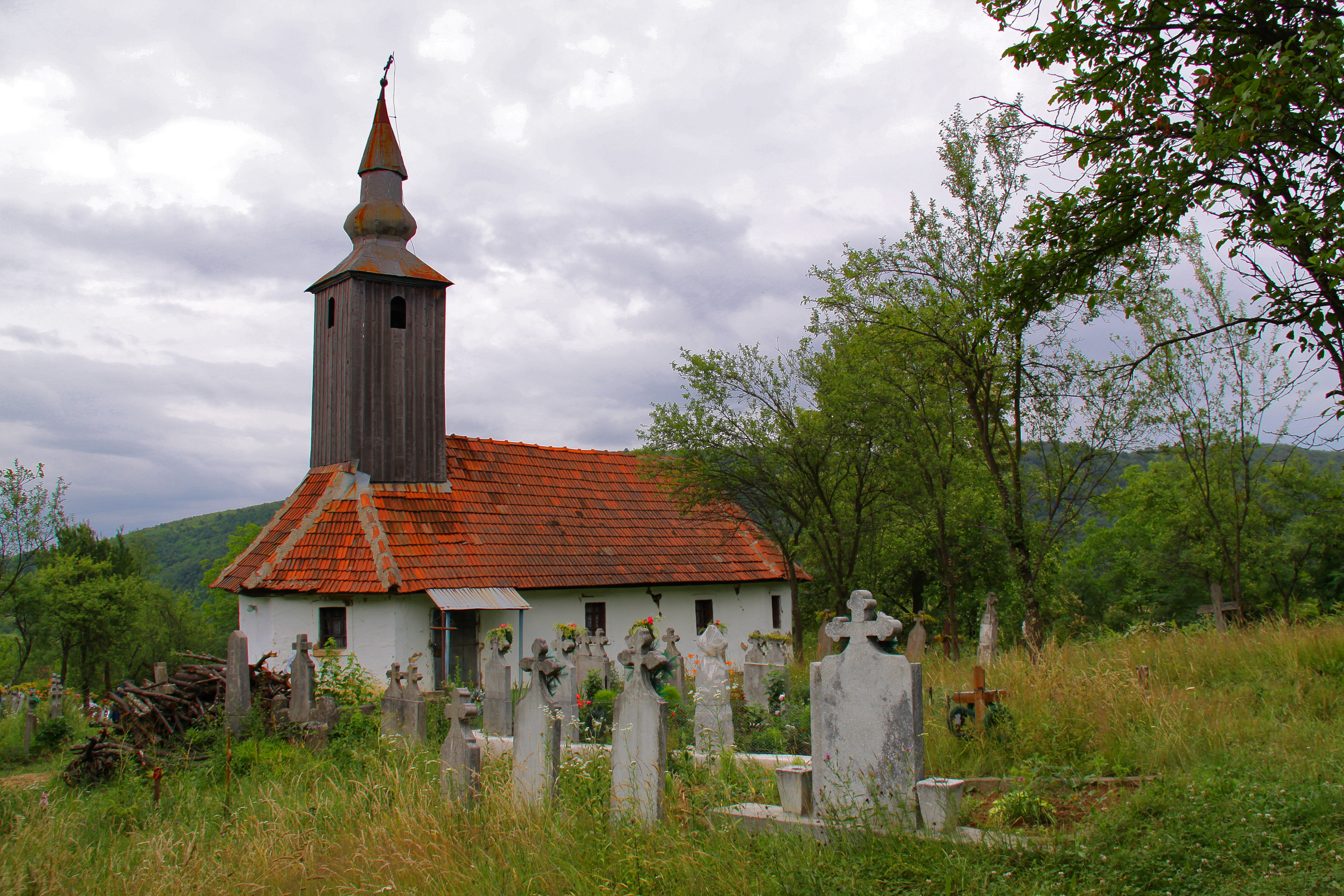 Şoimi, Bihor county, Romania: the wooden church, cemetery.